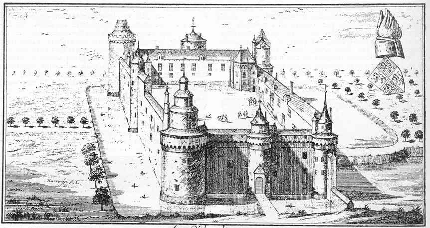 Former ducal castle of Vilvoorde, Belgium (ca. 1375-1775). Engraving in Jacques Le Roy, Castella et praetoria nobilium Brabantiae (1696).